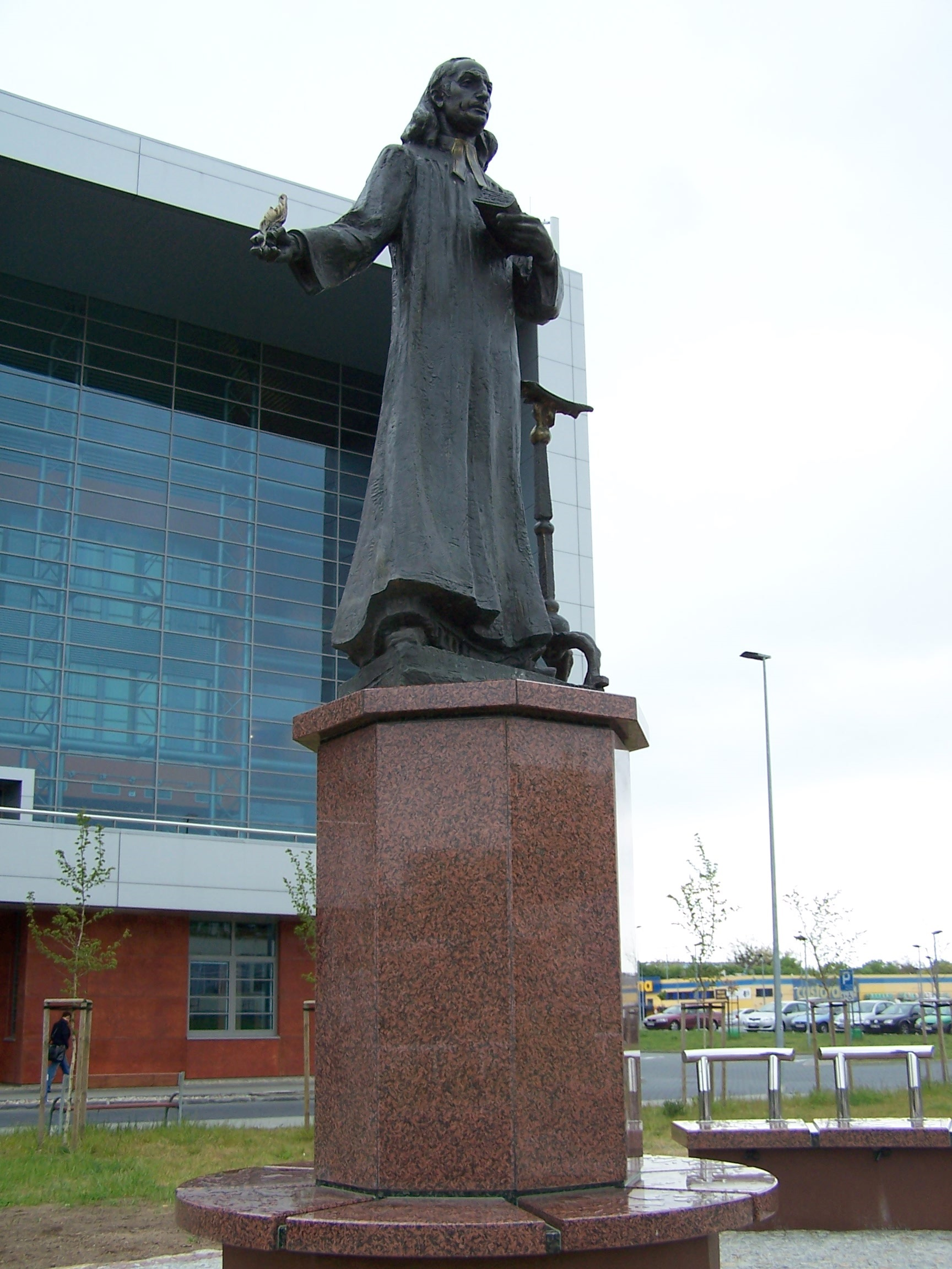 Monument of Christoph Mrongovius Gdansk, sculptored by Gennadij Jerszow (2009)